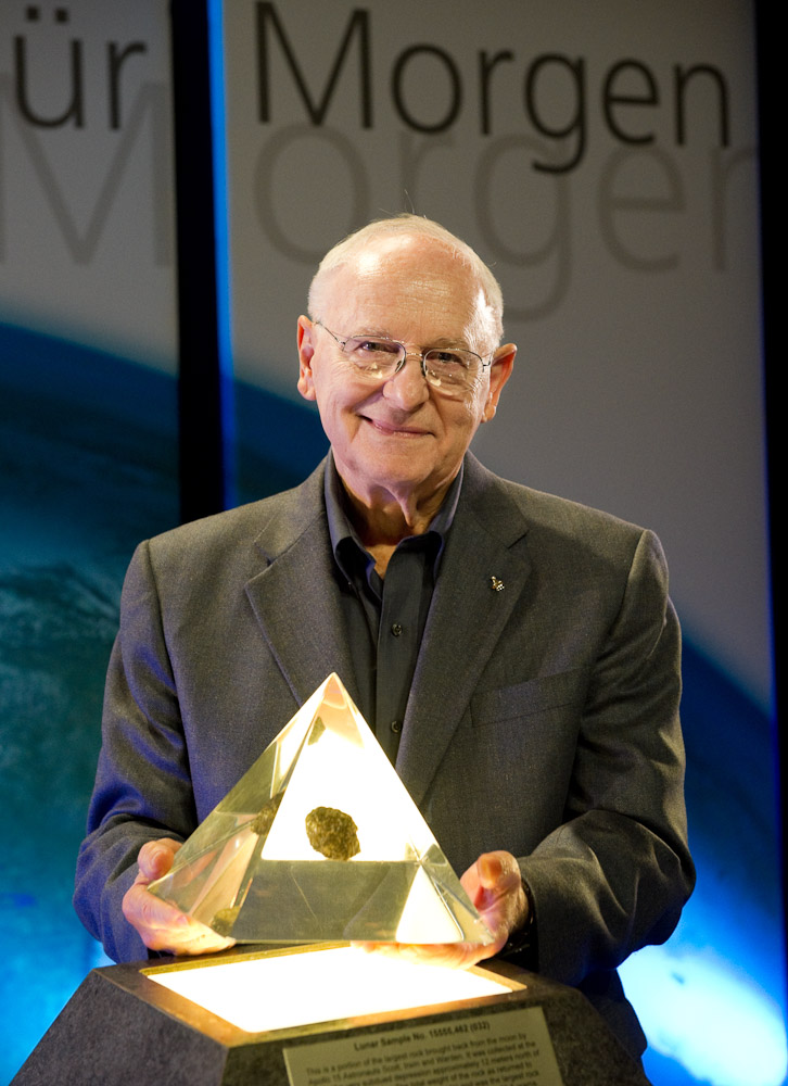 Apollo 12 astronaut Alan Bean presents a moon rock to the exhibition 'Sternstunden' in Oberhausen, Germany.